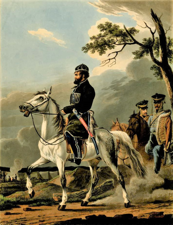 Denis Davydov